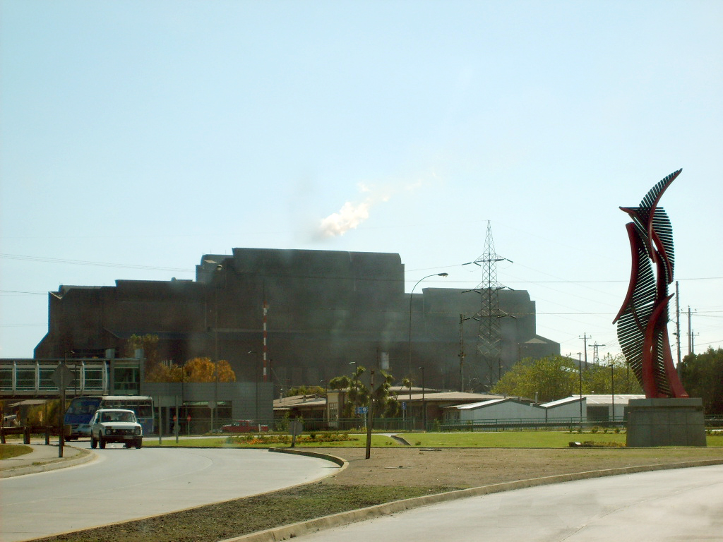 Siderugica Huachipato, Talcahuano, Chile.